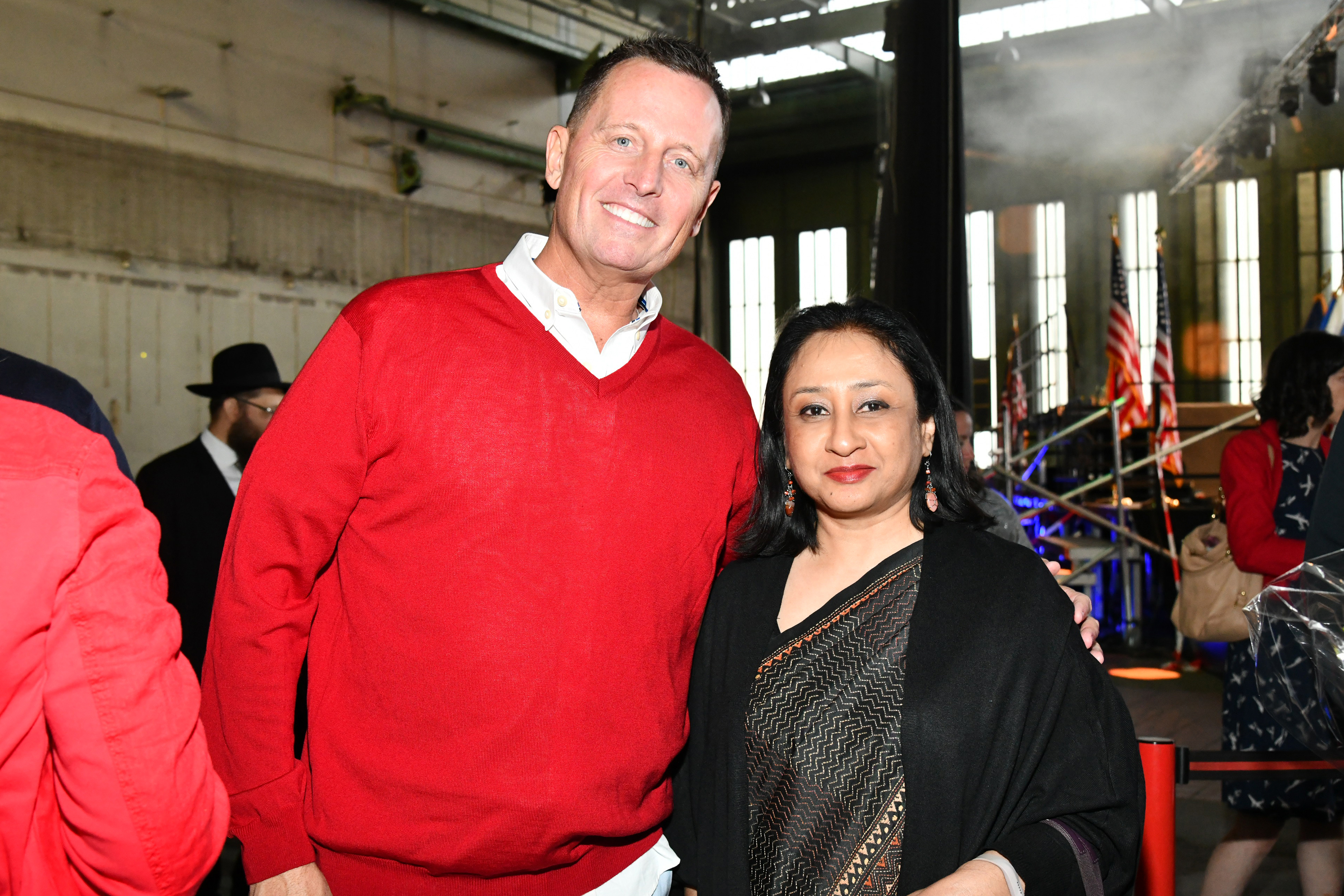 Mukta Dutta Tomar and Richard Grenell, 4th of July 2019 in Berlin